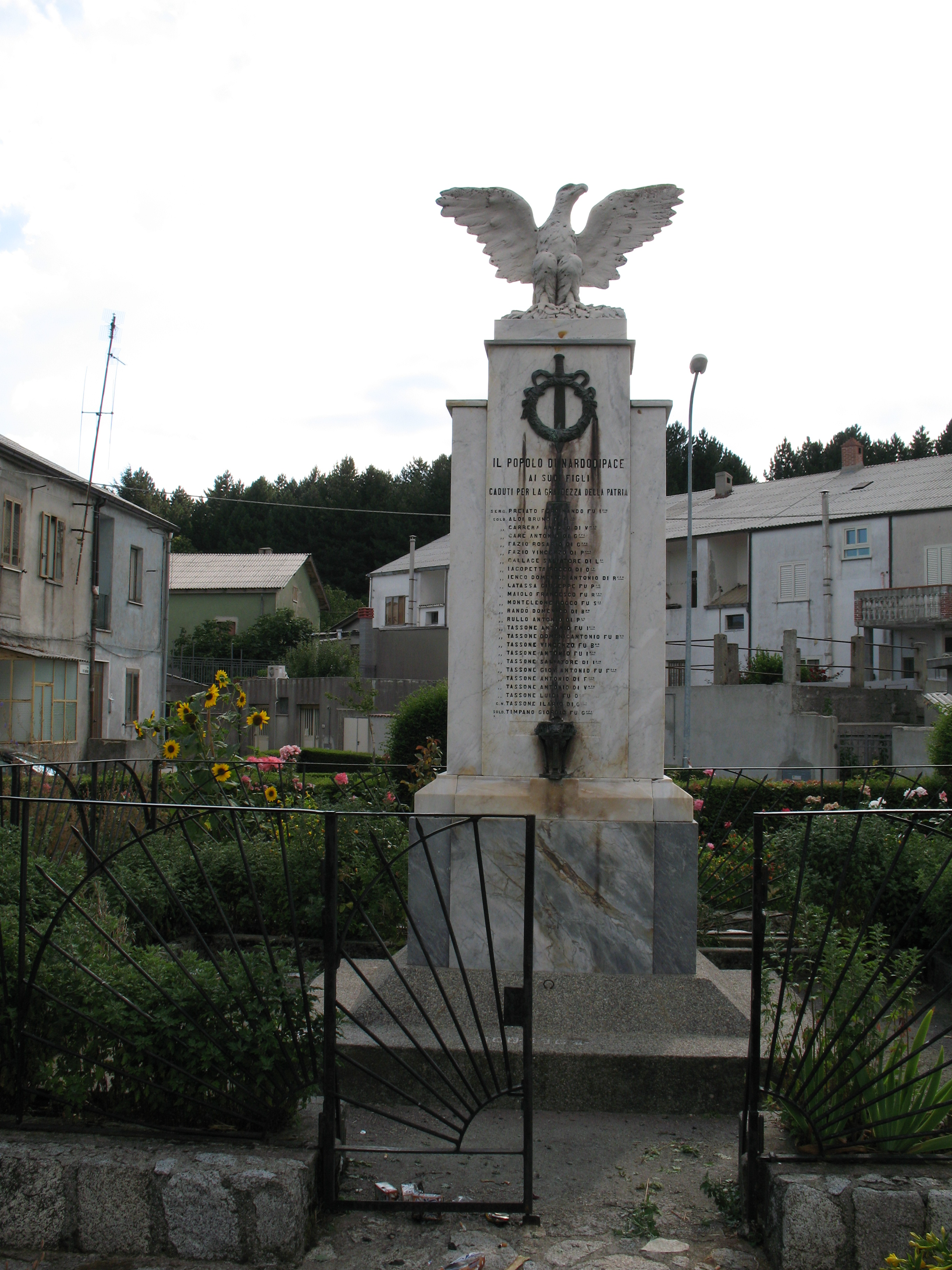 Nardodipace, garden